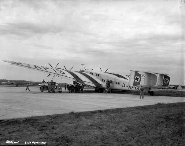 The Deutsche Lufthansa Junkers G.38 airliner D-APIS at the opening of Sola Airport in Norway.